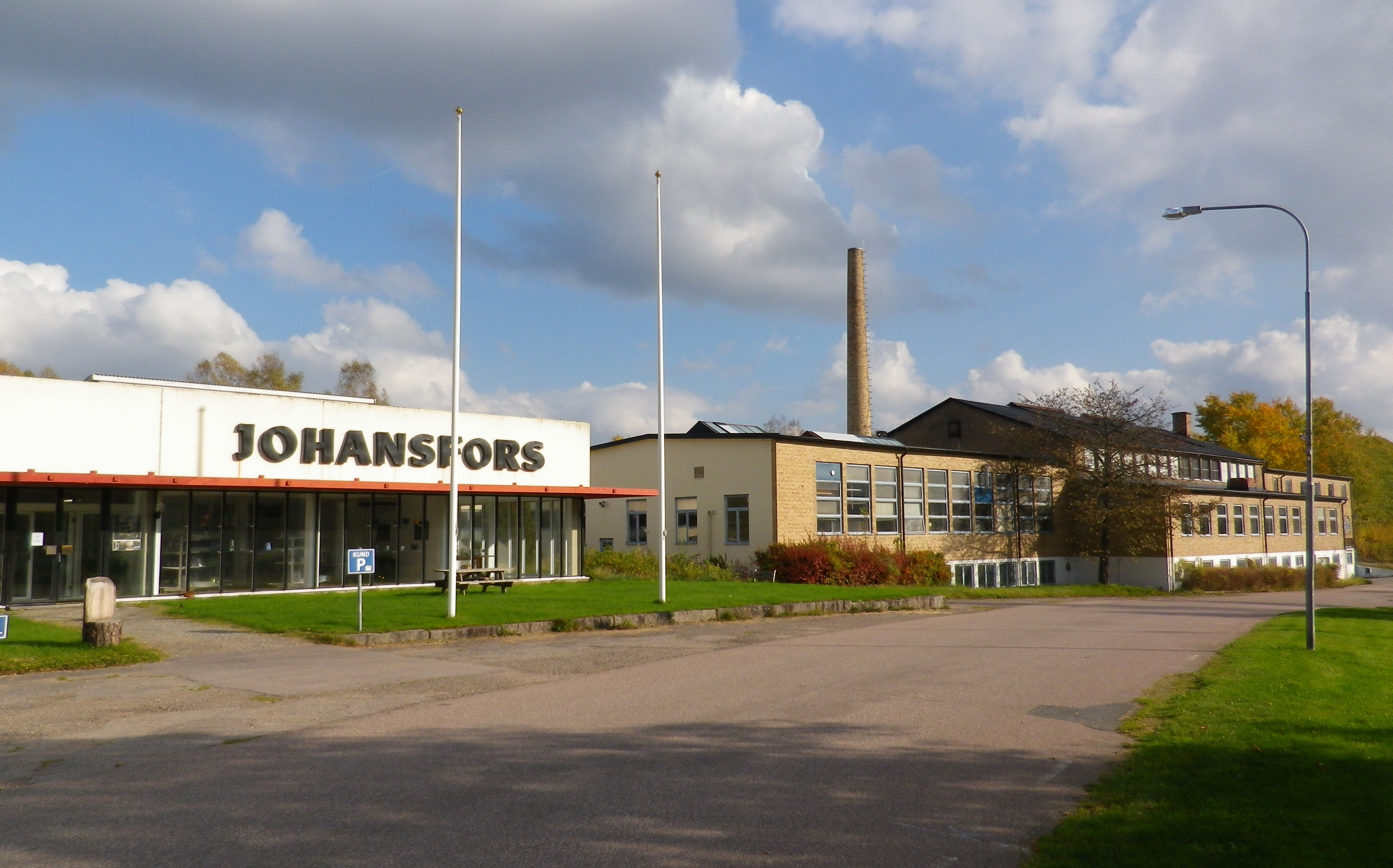 Johansfors glassworks